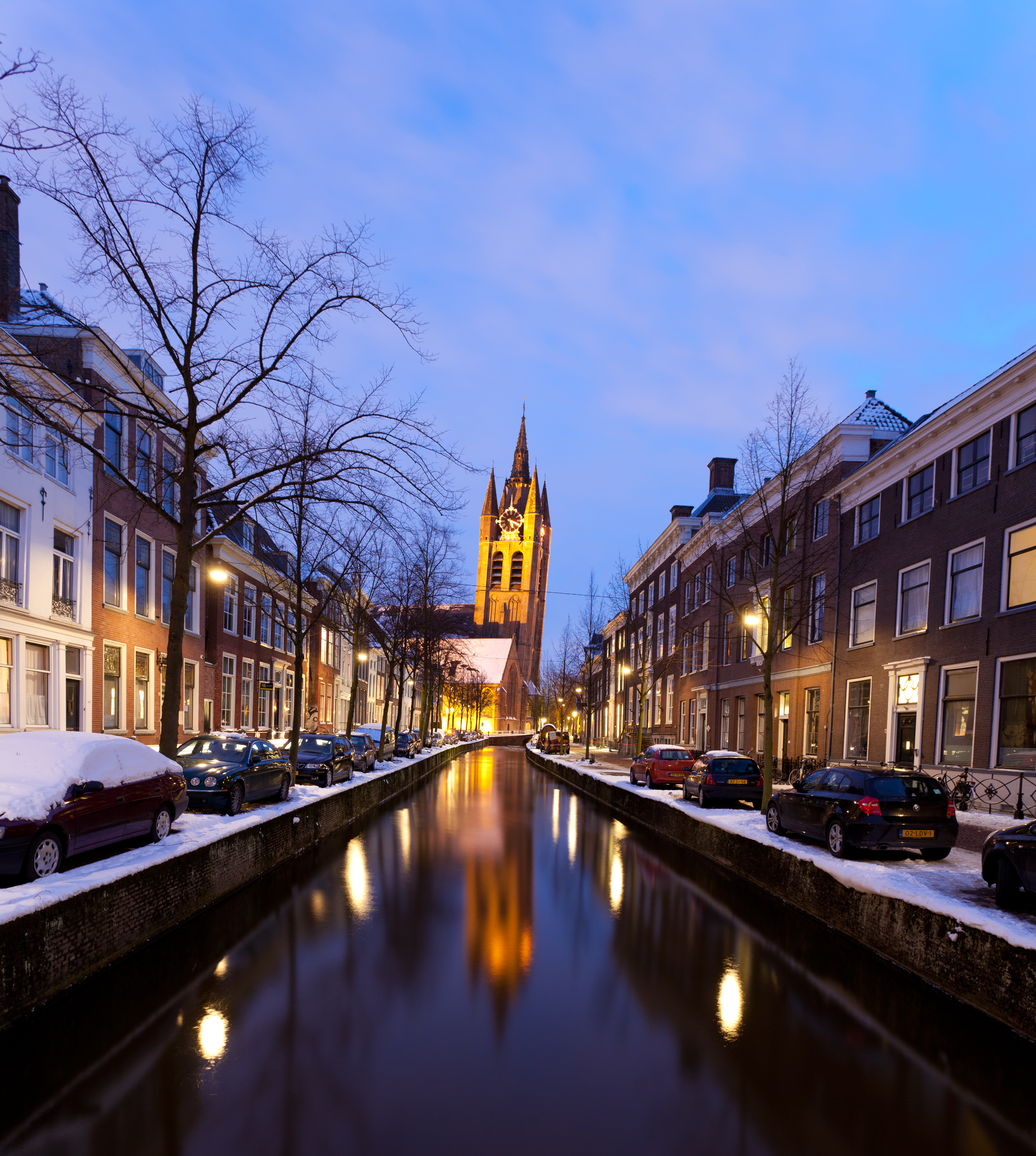 The church in Delft is called "De Scheve Jan" (